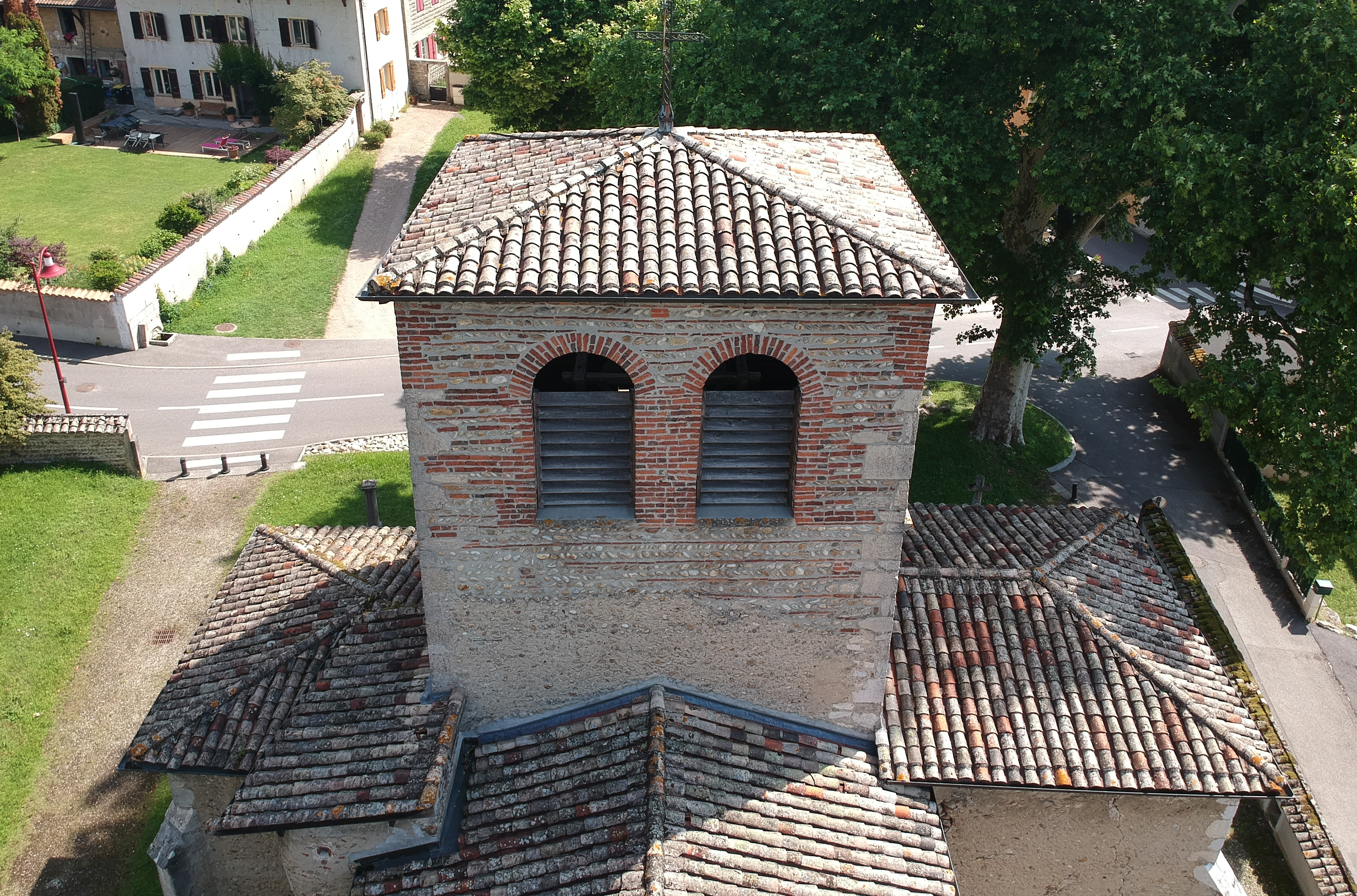 Saint-Maurice church (Saint-Maurice-de-Beynost).